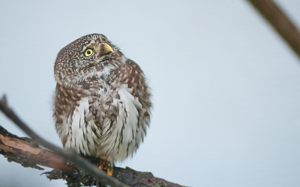 A Eurasian Pygmy Owl at Ornika 2011, an annual bird show held in Bad Schonborn, Germany -bird show.